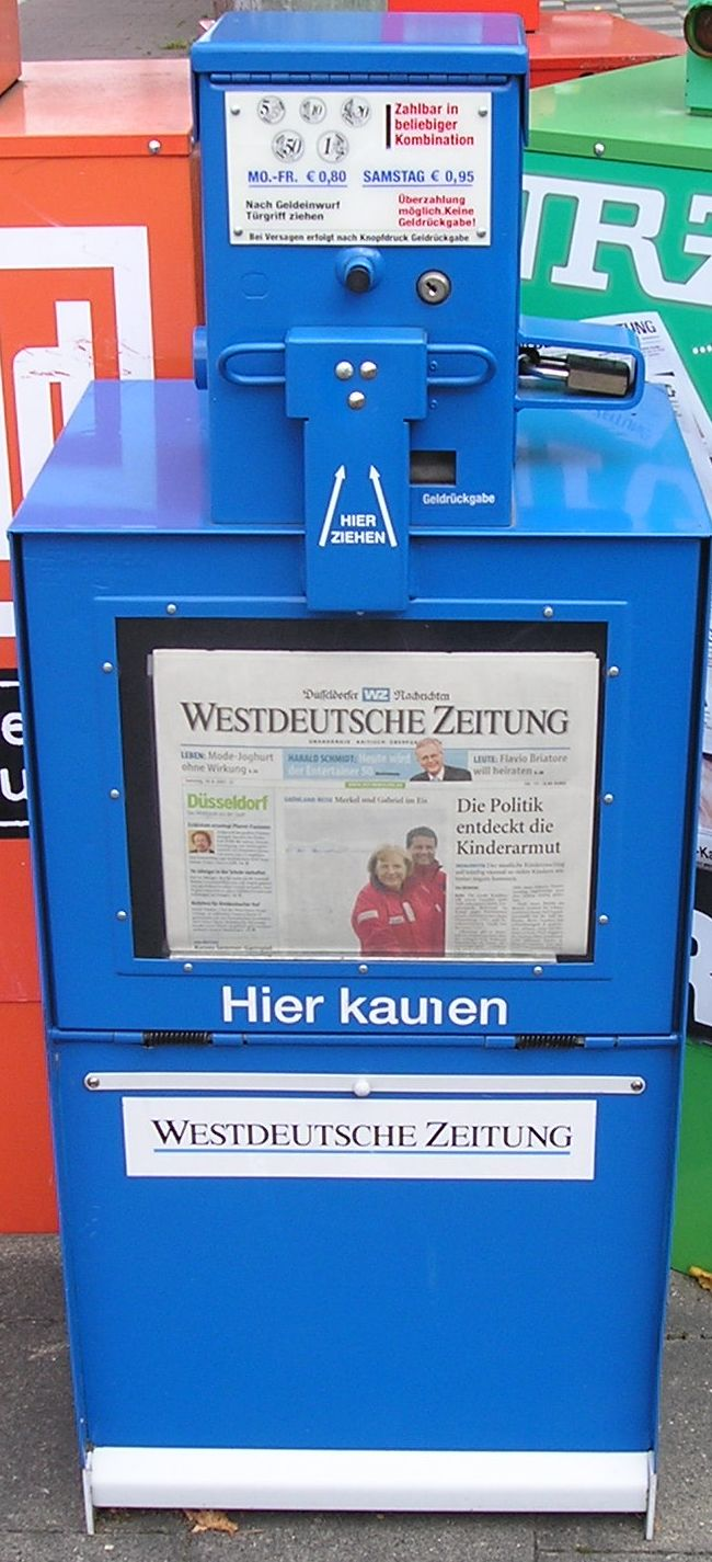 Vending machine for the WZ newspapers.